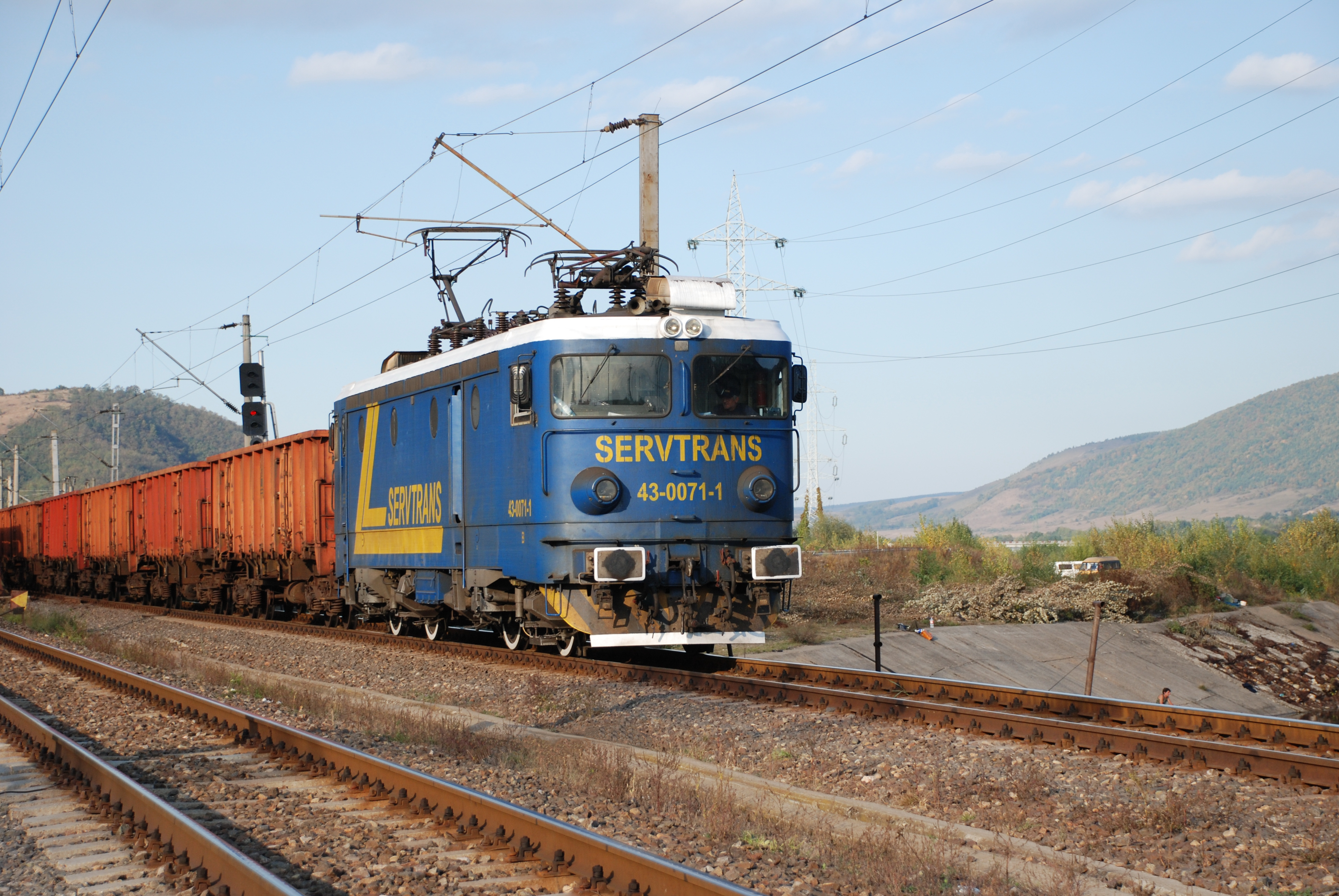 Servtrans LE3400 and freight train enroute to Petrosani, after leaving Subcetate station.